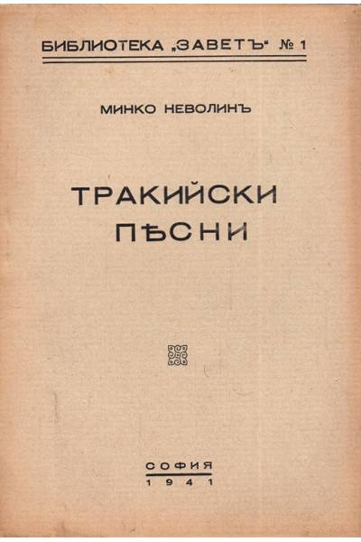 Tracian Songs